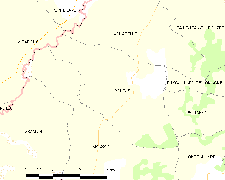 Map of French municipality Poupas